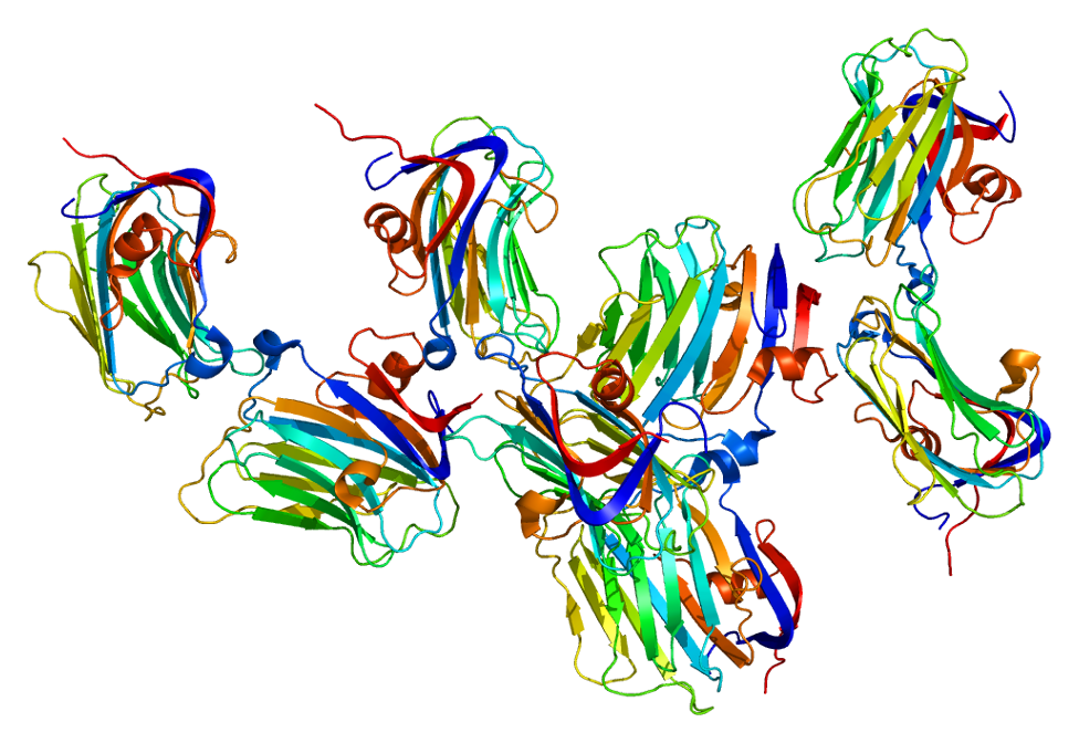 Structure of the NRXN1 protein. Based on PyMOL rendering of PDB 1c4r.